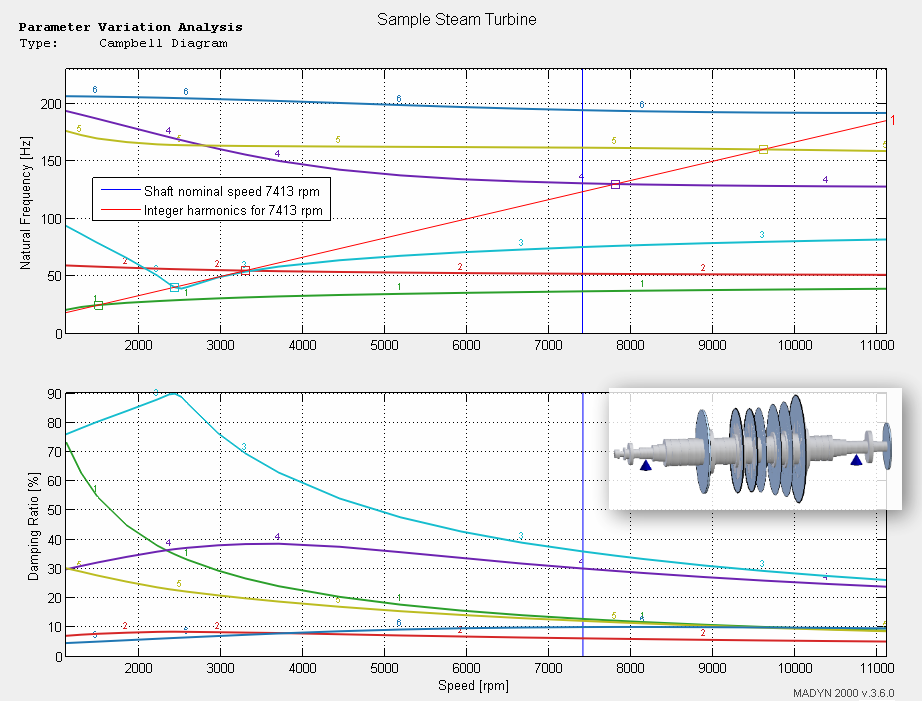 Analytically calculated Campbell Diagram of a sample Steam Turbine. Analysis show that there are well-damped critical speed at lower speed. Another critical speed, at mode 4 is observed at 7810 rpm (130 Hz) in dangerous vicinity of nominal shaft speed, but it has 30% damping - enough to safely ignore it. 3D plot of the model is also shown.